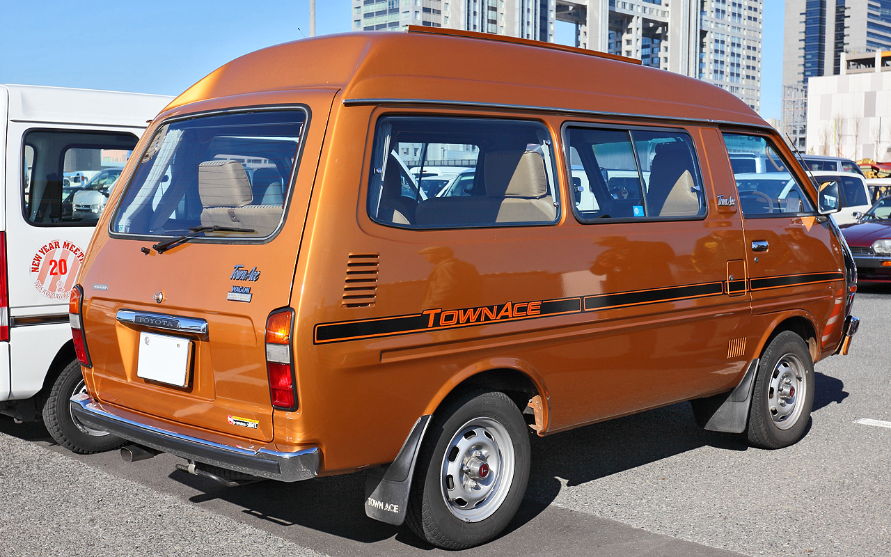 Toyota Town Ace ( Townace ) Wagon, the first generation.